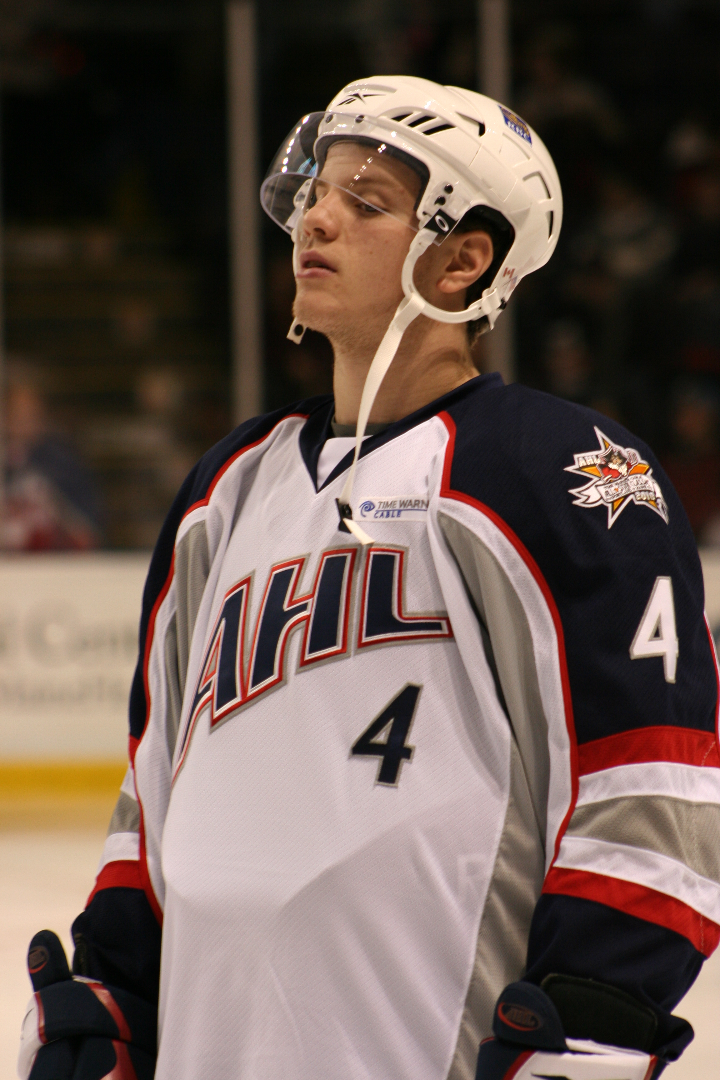 Ice hockey player from US: John Carlson